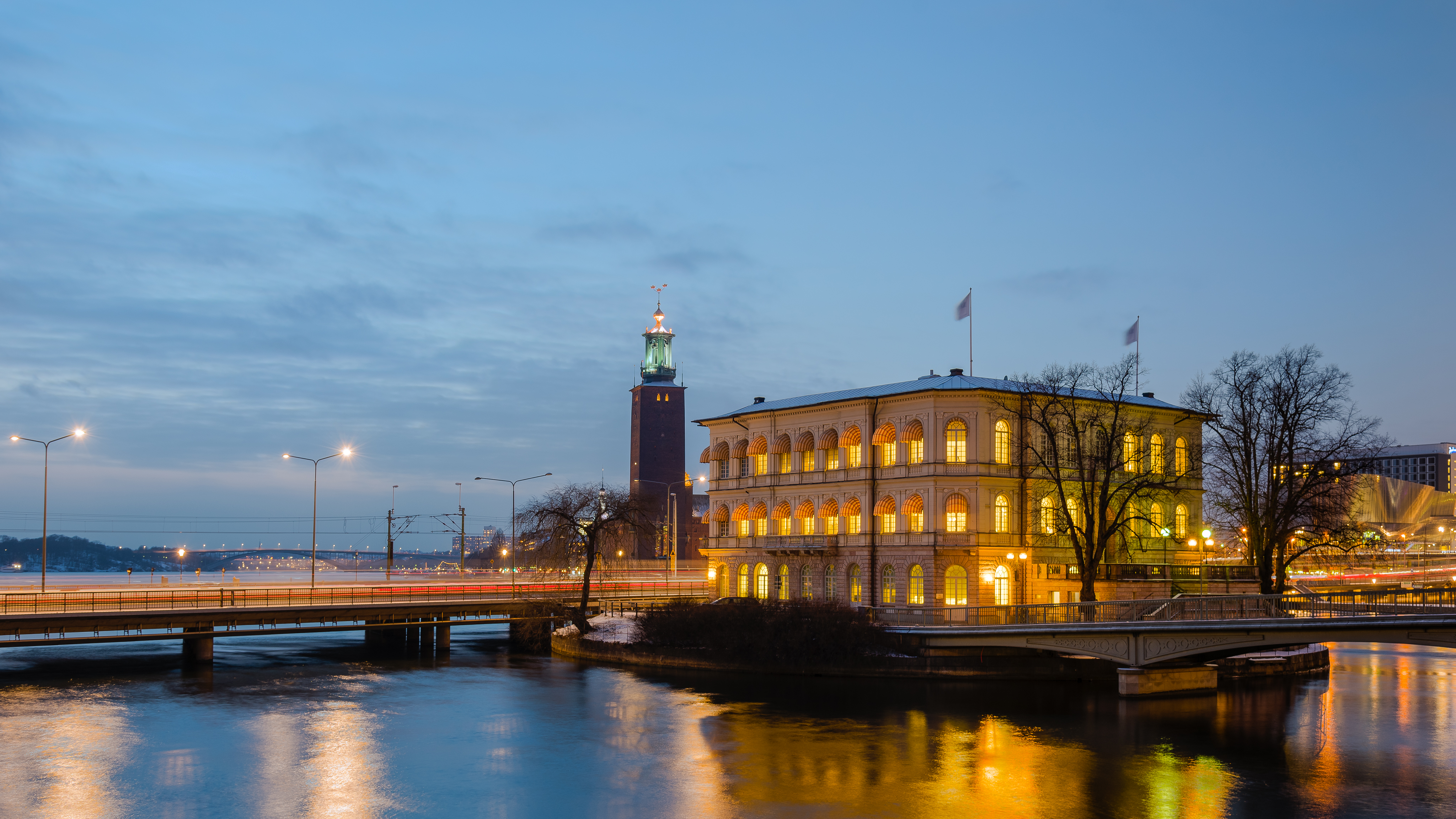 Strömsborg and Stockholms Stadshuset (city hall) seen from Vasabron.